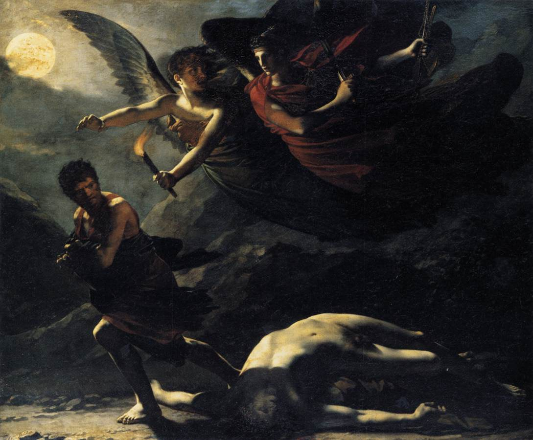 Justice (Dike, on the left) and Divine Vengeance (Nemesis, right) are pursuing the criminal murderer.